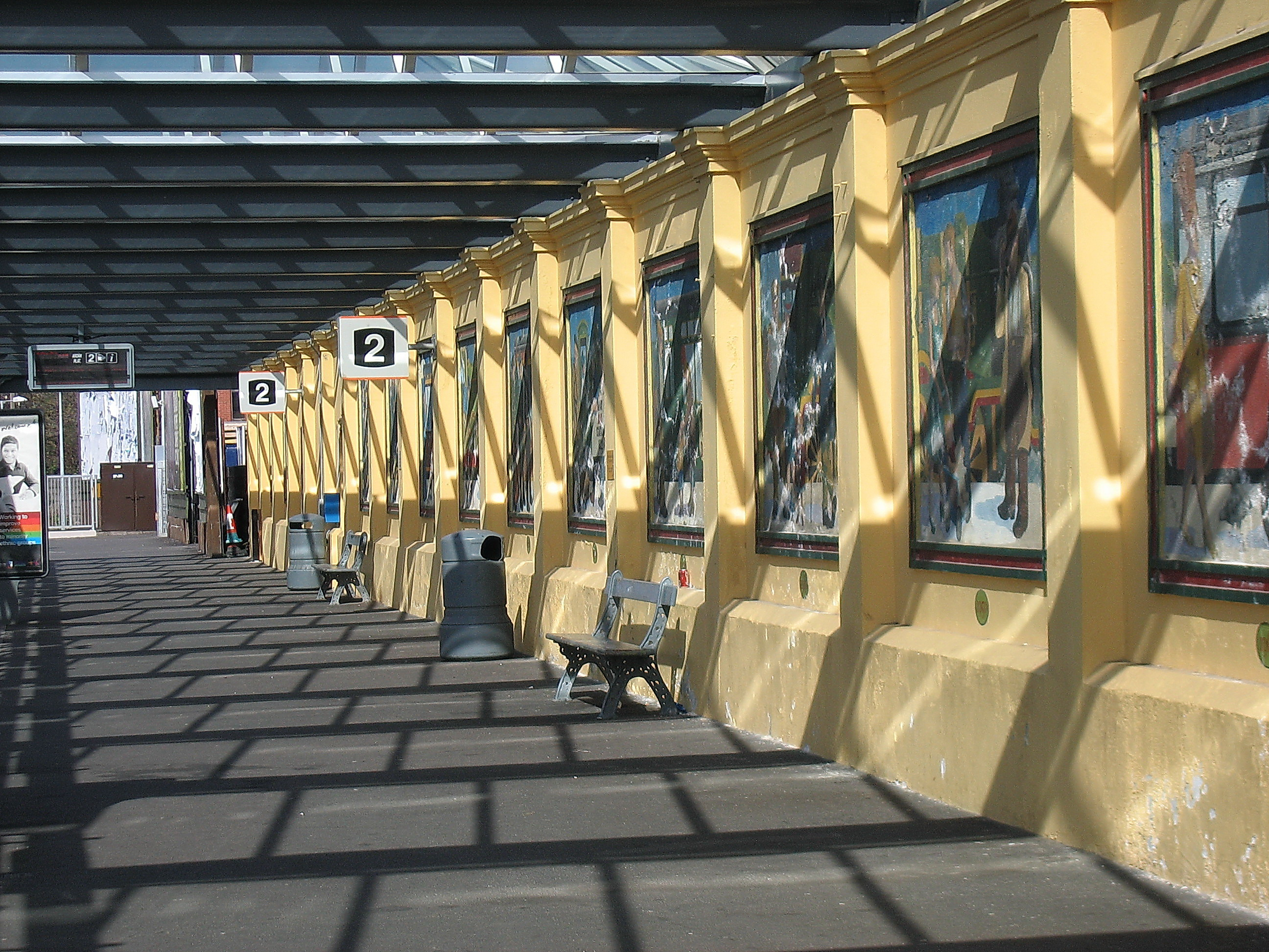 A Panel for Every Decade since 1850s in Bray Railway Station